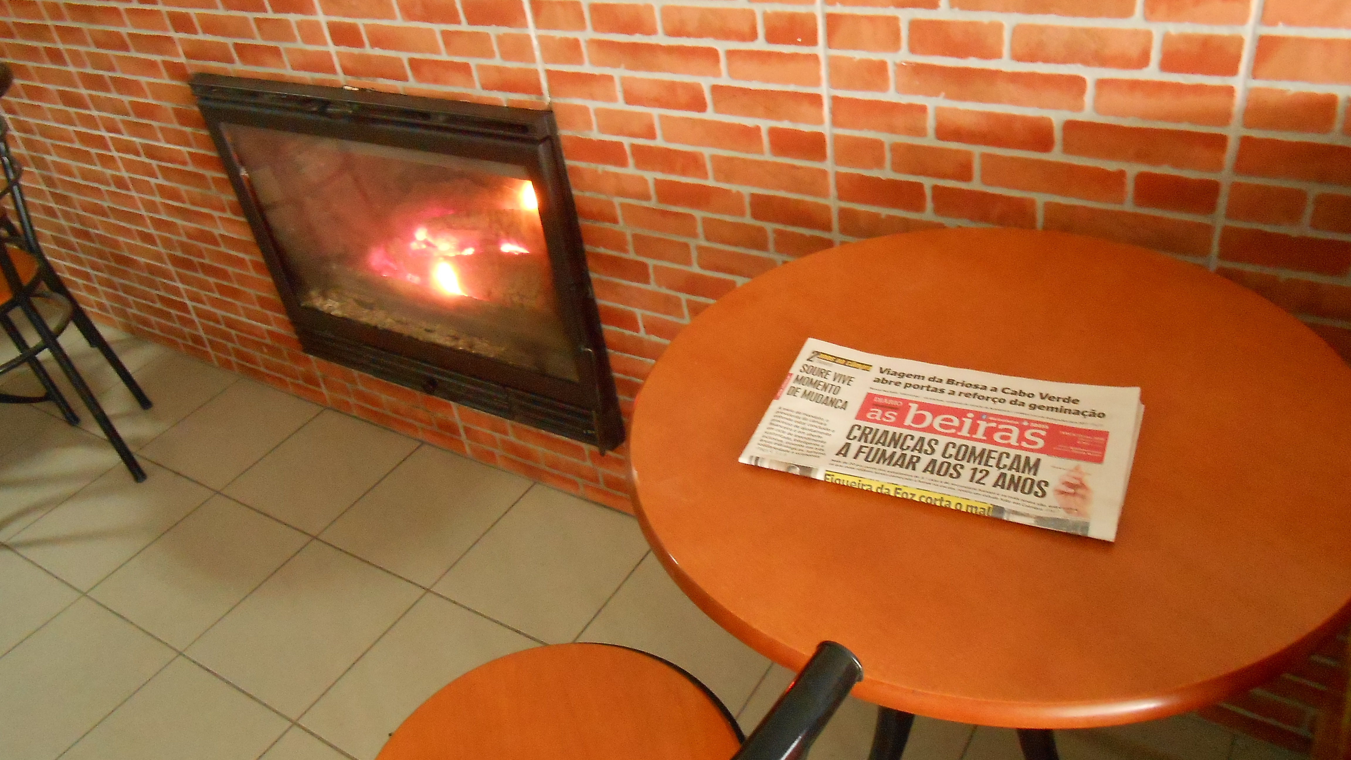 Newspaper "Diário As Beiras" in the café and restaurant Cadete in Atouguia, a village in the parish of Borda do Campo in the portuguese municipality of Figueira da Foz, seen in november 2015.